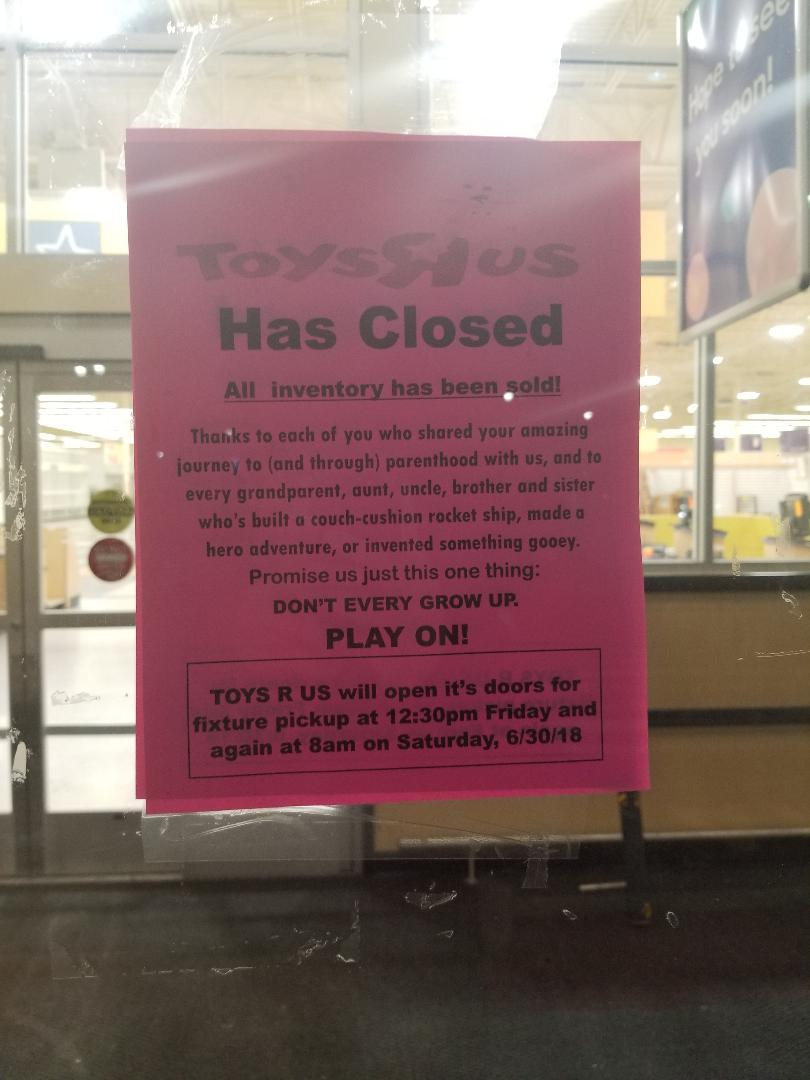 East Brunswick